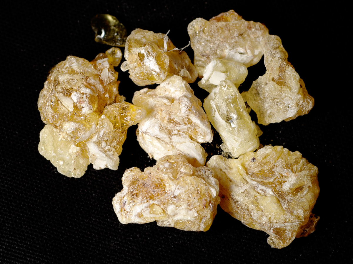 Frankincense I bought in Somalia on 15/Jul/2005.